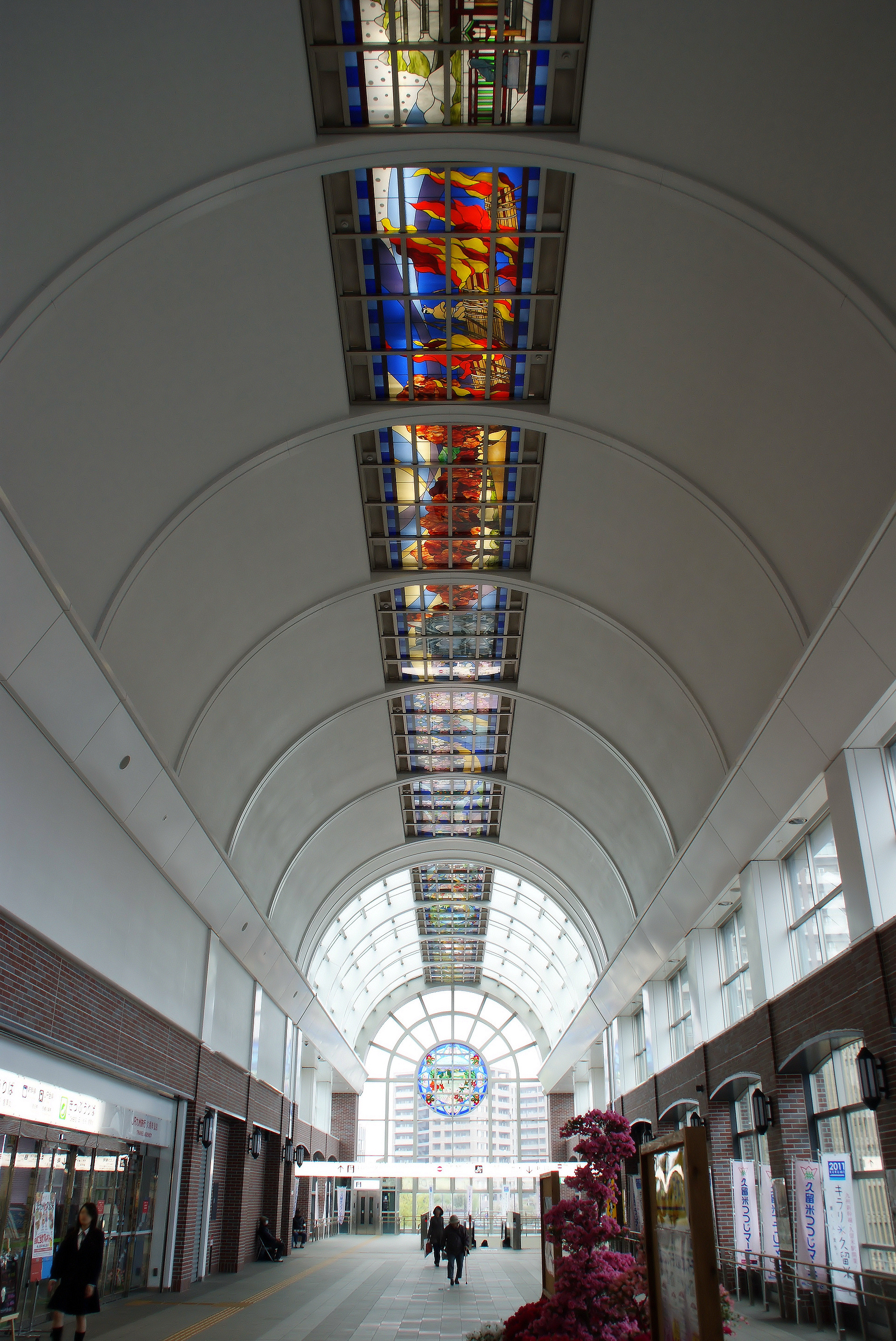 Kyushu Railway Company, Hotomeki Square of Kurume Station.(Kurume City, Fukuoka Prefecture, Japan)